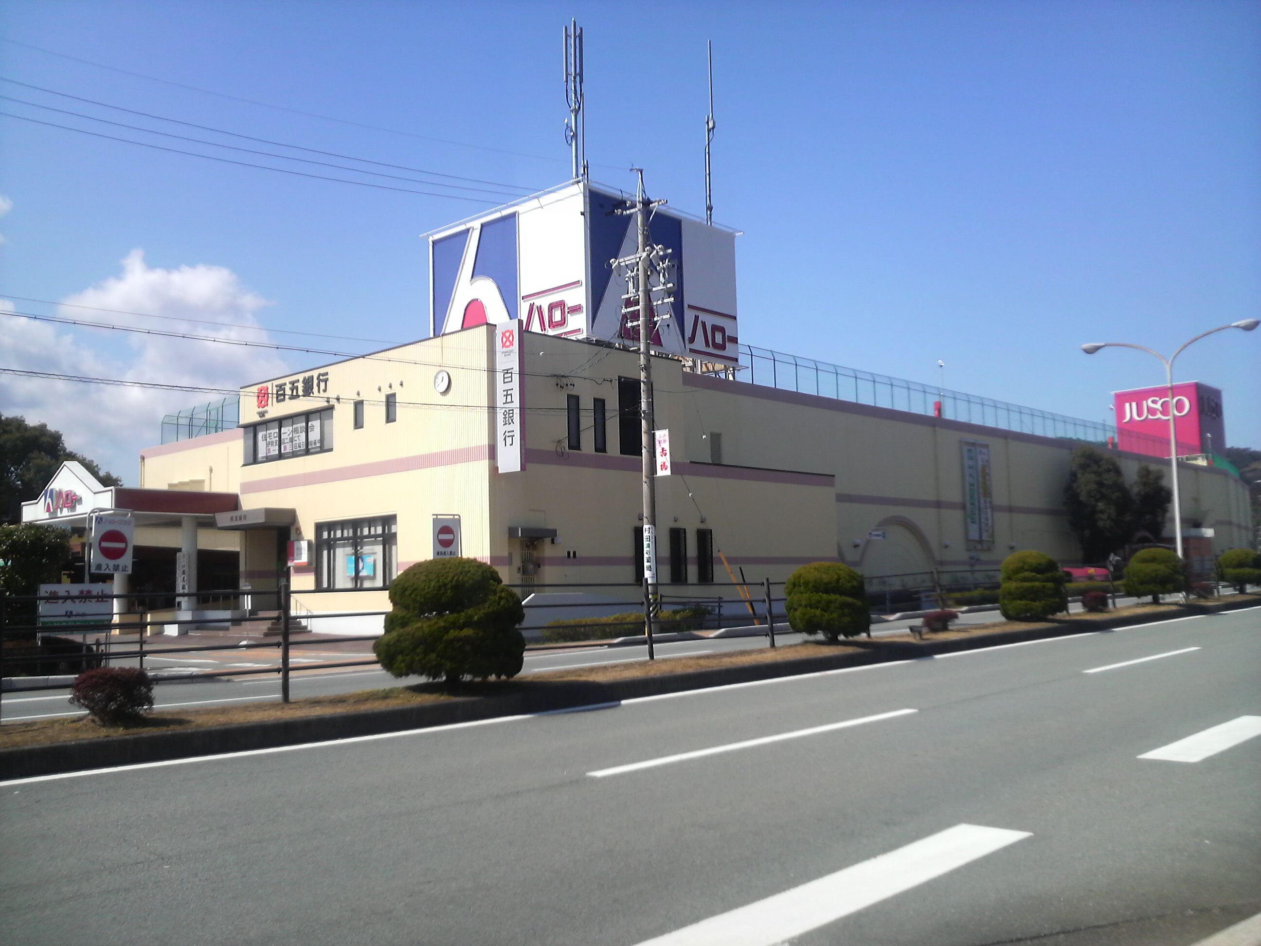 The "Toba Shopping Plaza Hello" in Toba city, Mie Prefecture, Japan.